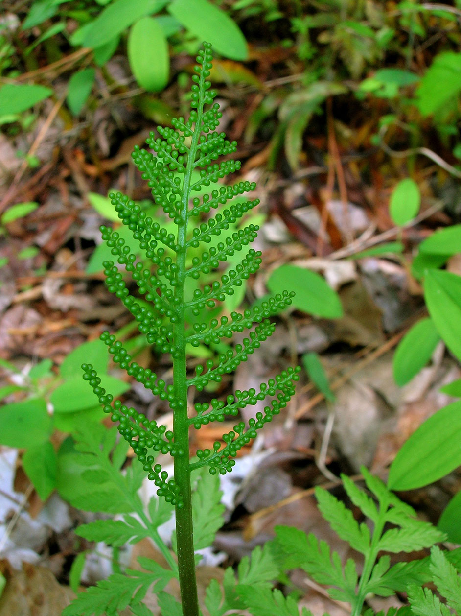 Spore-producing frond of a rattlesnake fern, Botrychium virginianum.